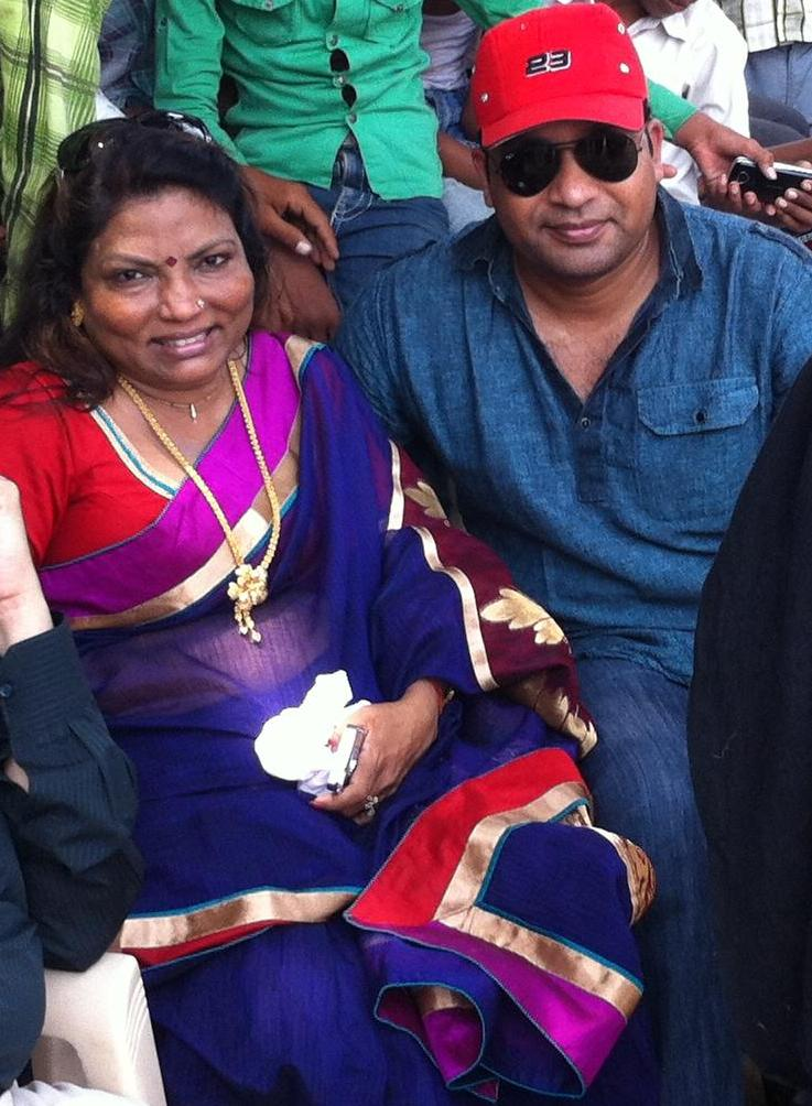 Padmshree Kalpana Saroj & Deelip Mhaske on Khairlanji Movie shooting location